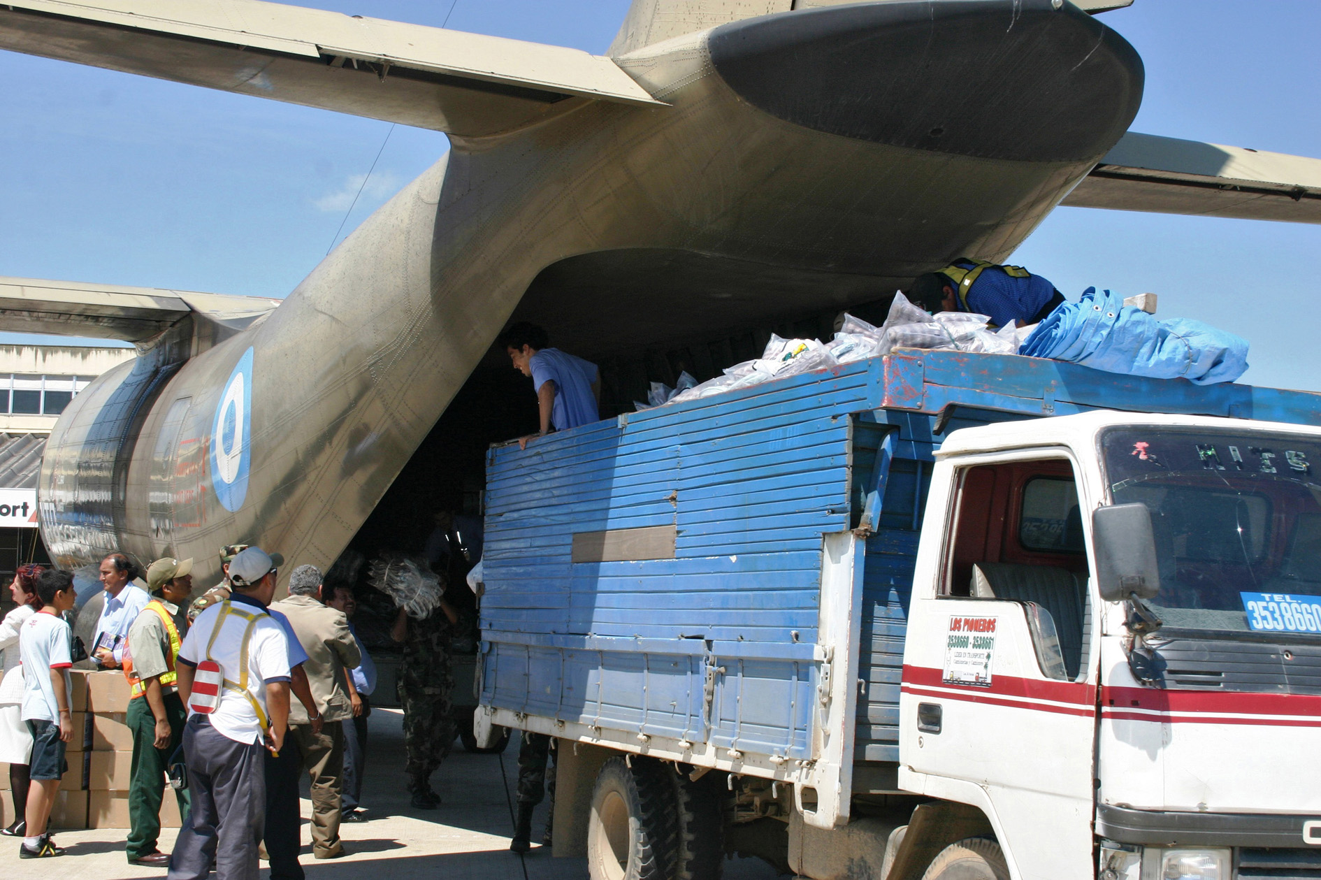 Delivery of humanitarian supplies